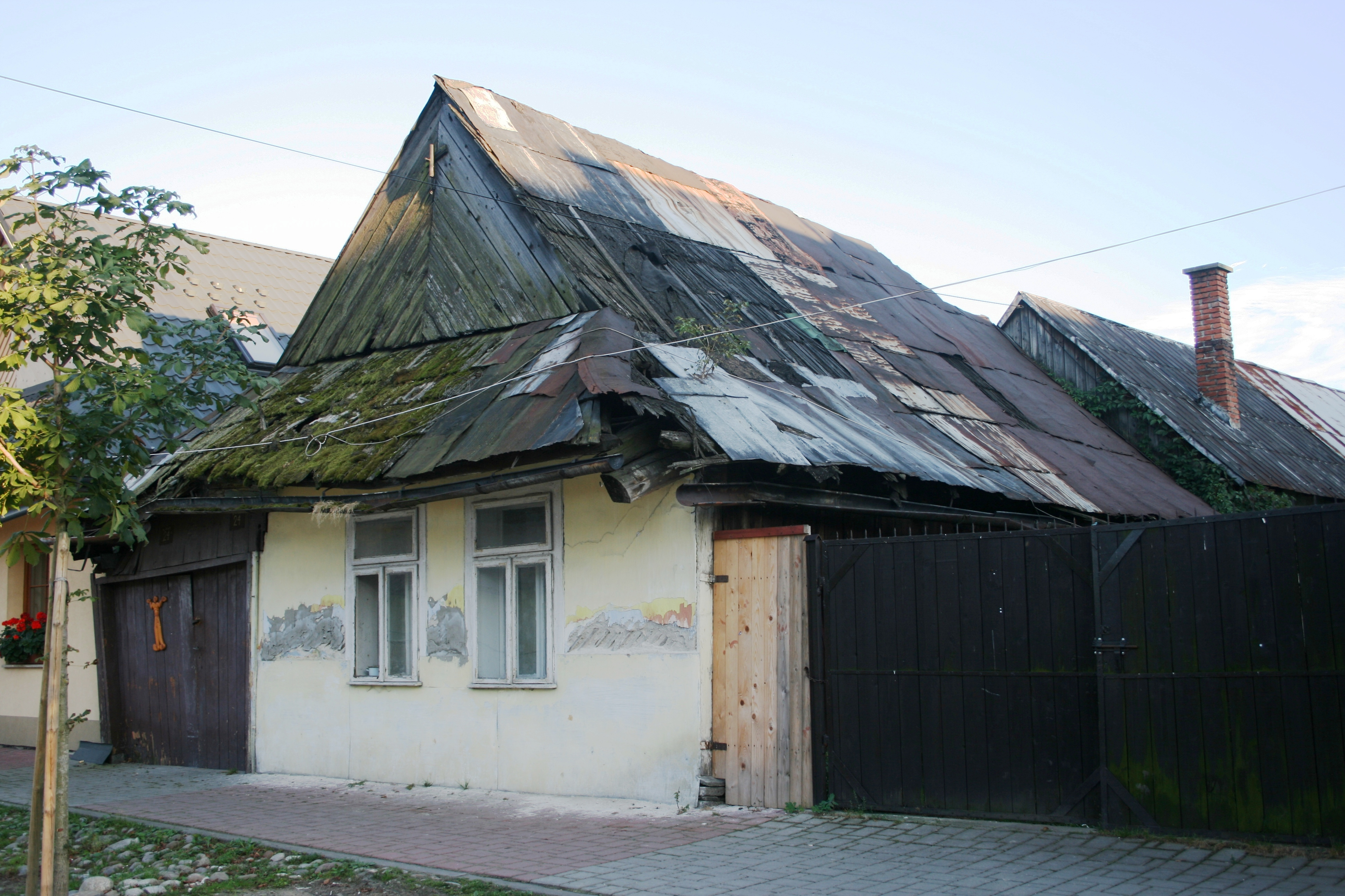 Historic monument in Krościenko nad Dunajcem - Rynek 24